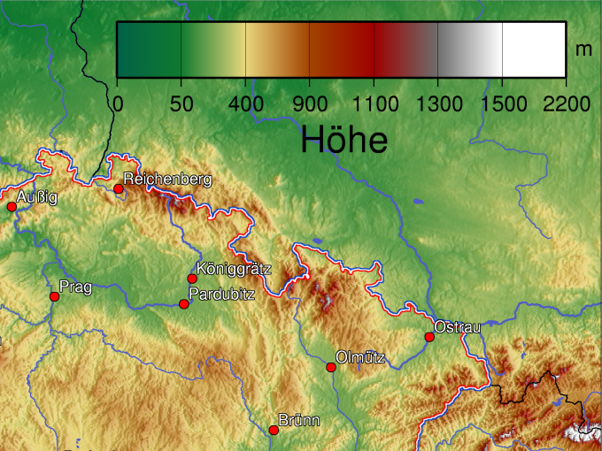 Topography of Czech Republic-Poland border.